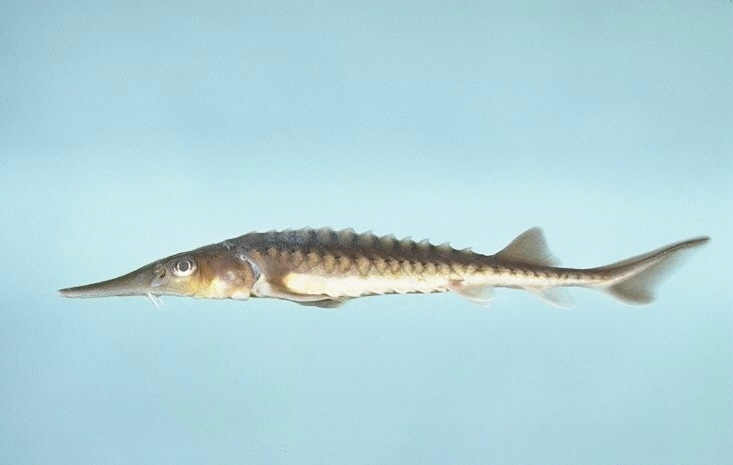 Acipenser sp. Public domain ( "Information presented on this website is considered public information and may be distributed or copied.")